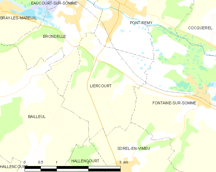 Map of French municipality Liercourt